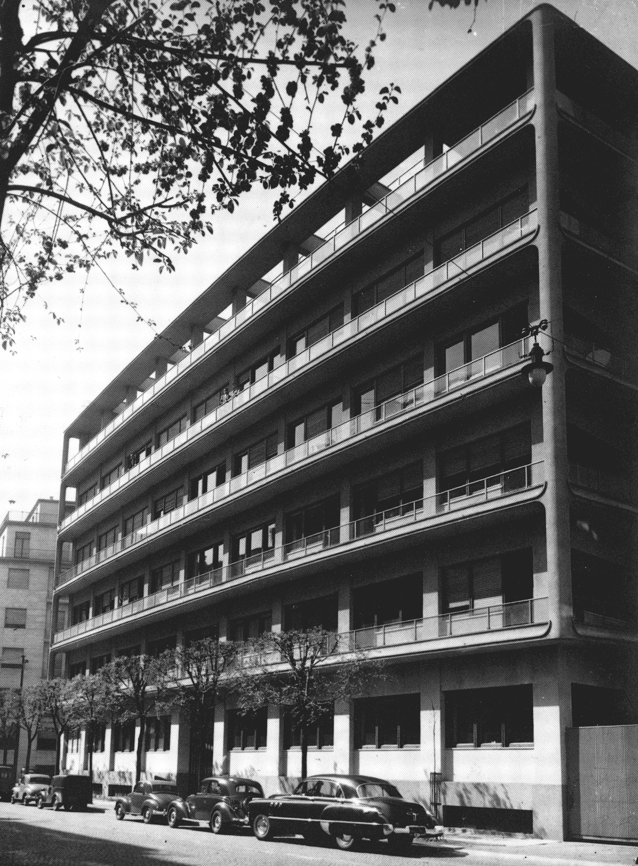 Casa per uffici e abitazioni in via dei Giardini 7, Milano, 1947-49 C. De Carli con A. Carminati, E. Saliva